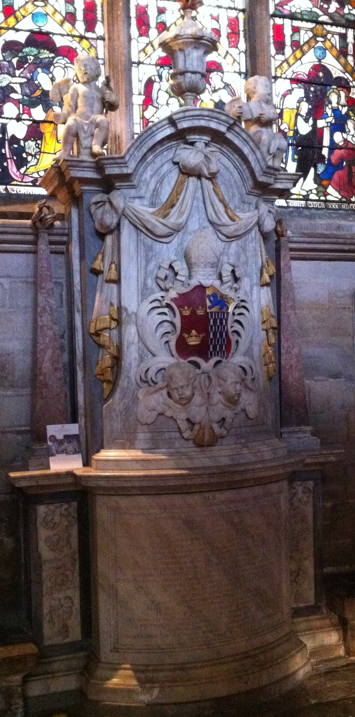 Memorial to Bishop Simon Patrick in Ely Cathedral. Arms appear as Vair, on a chief or a lion passant azure